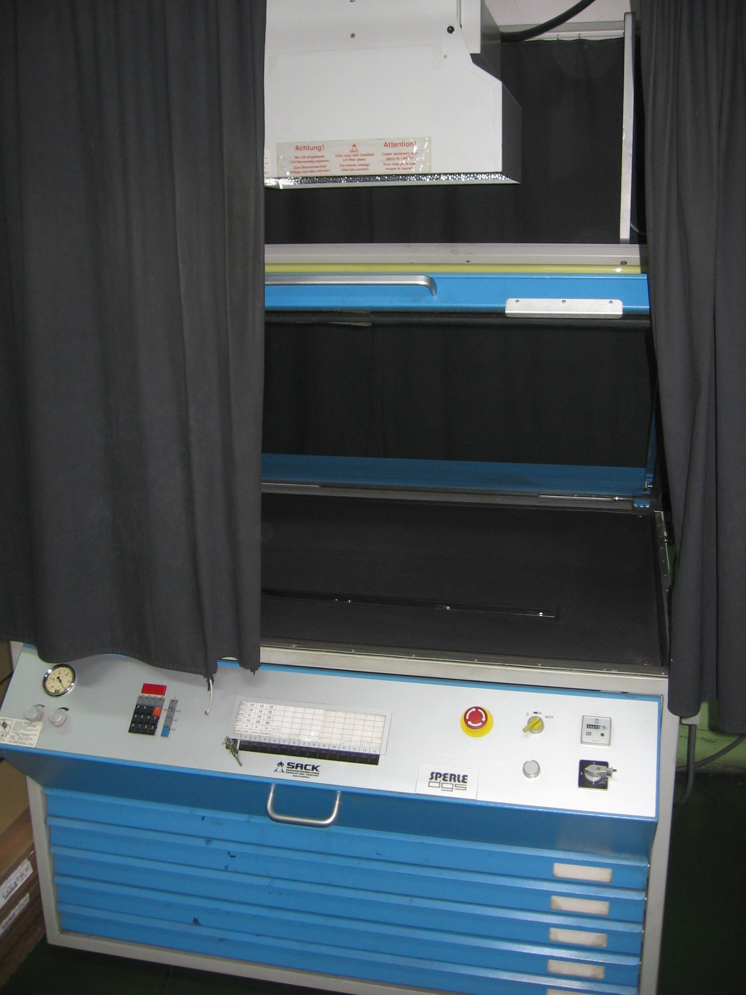 Sack copyframe for offset plates